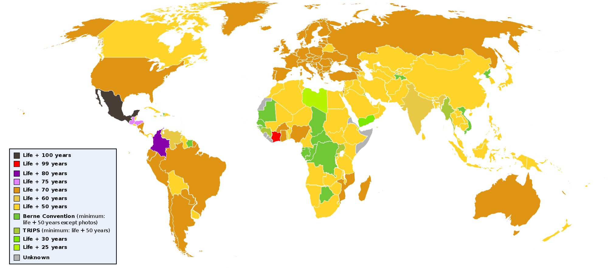 List of different countries and the length of their standard copyright in years